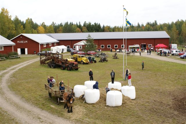 Museum in Ljusfallshammar